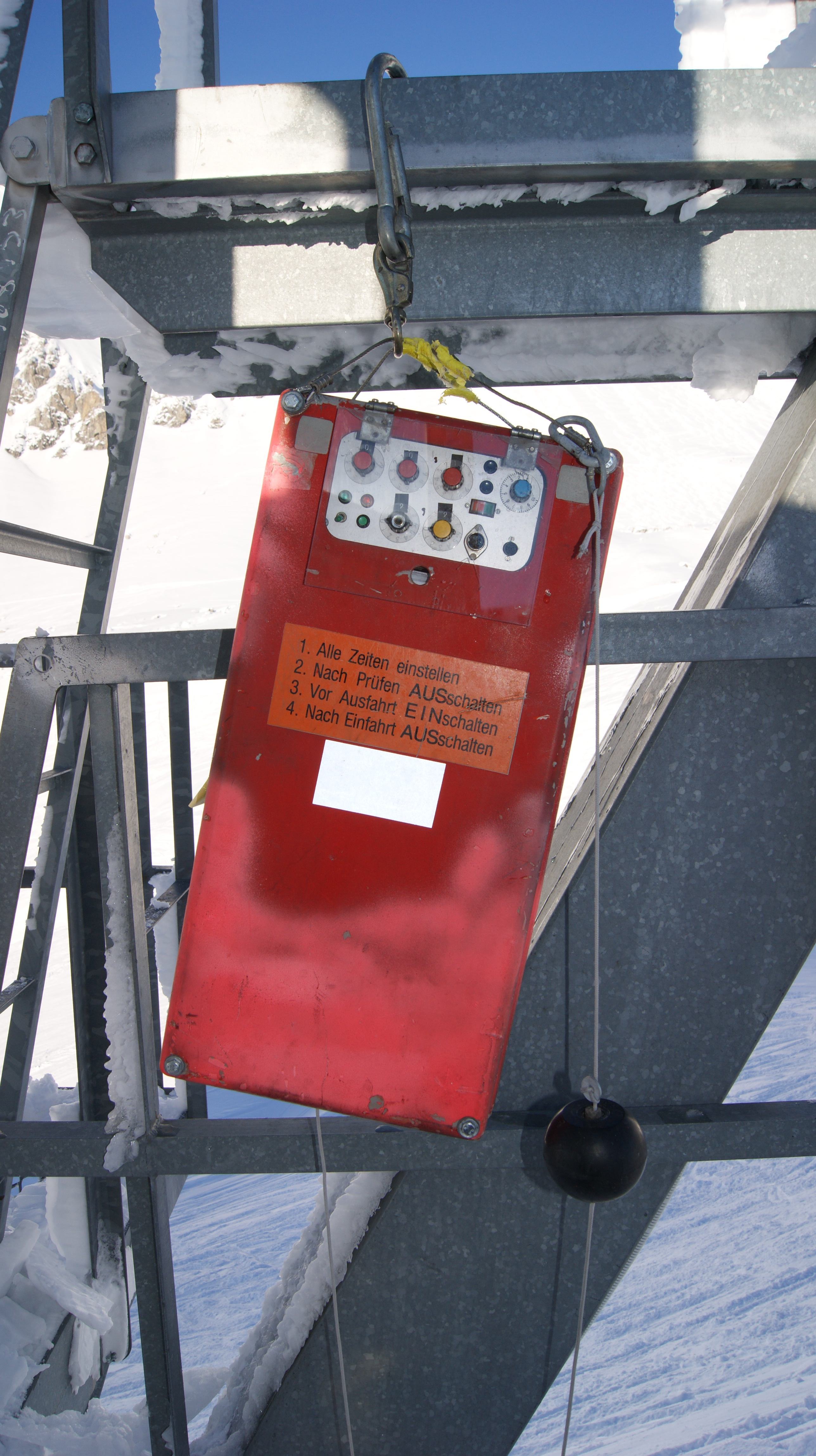 Avalanche blasting ropeway Valfagehr in Rauz, Kloesterle, Voralberg, Austria. Automatic lowering device for explosives.